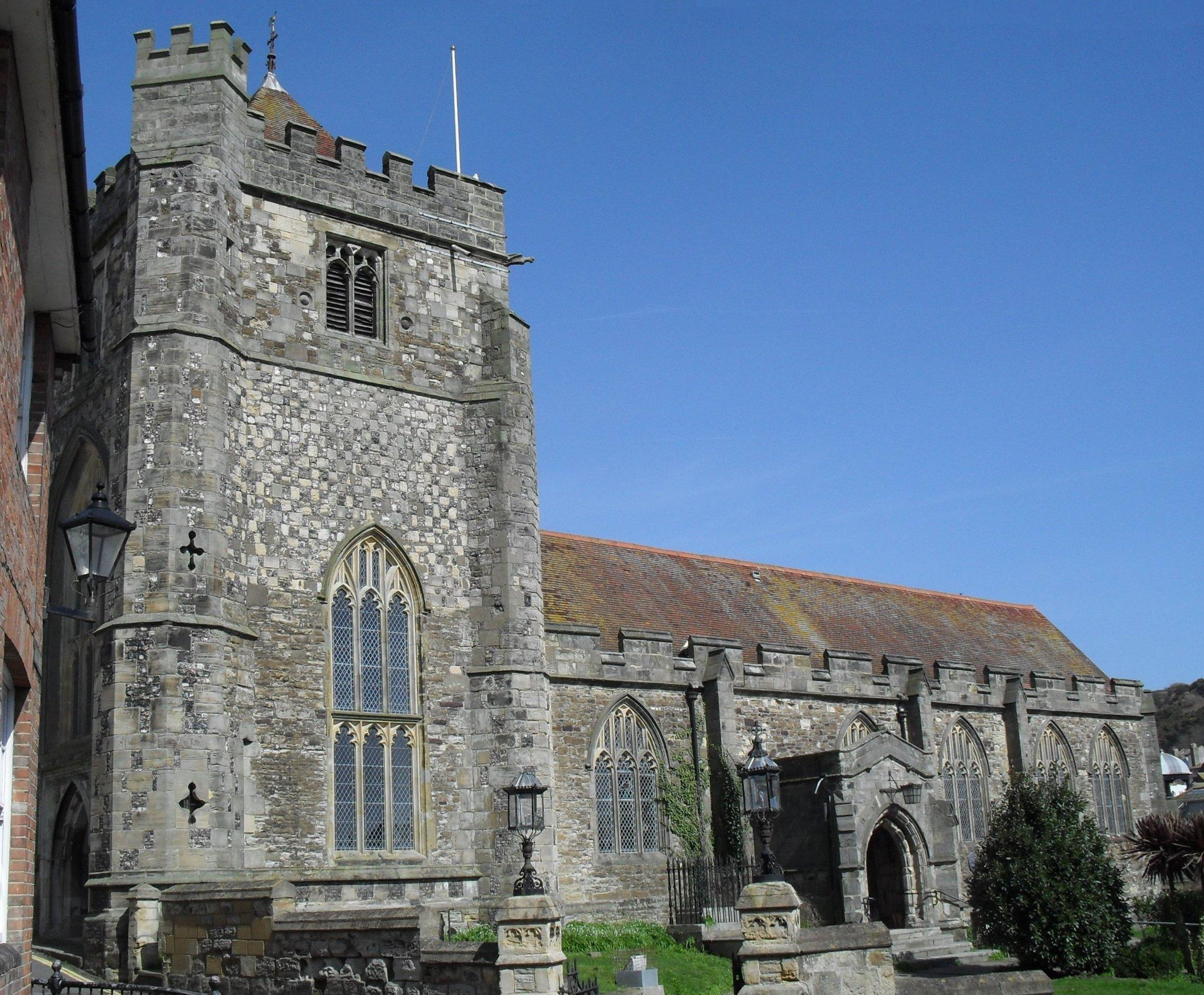 St Clement's parish church, Swan Terrace, Old Town, Hastings, East Sussex, seen from the southwest